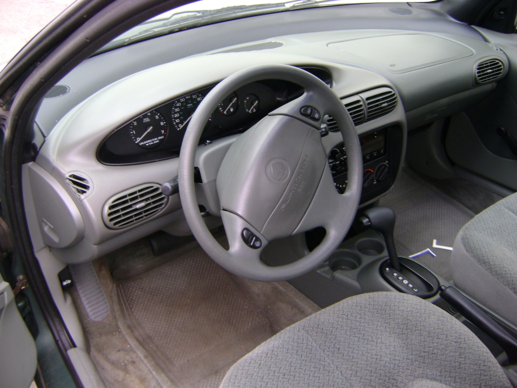 1998 Plymouth Breeze dashboard